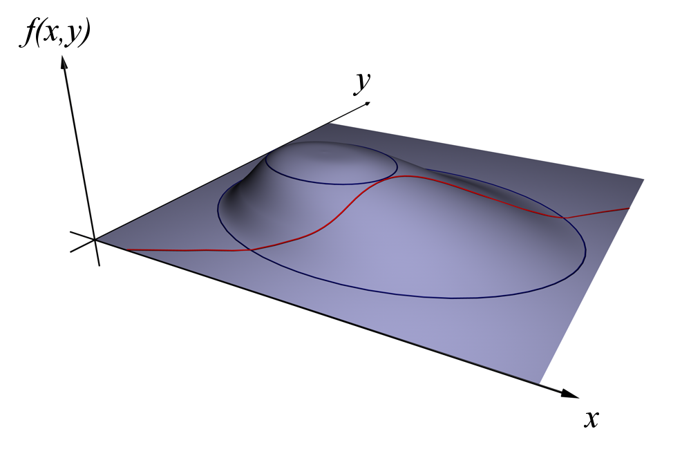 Visualization of the method of Lagrange multipliers in 2D, function displayed as 3D-plot.